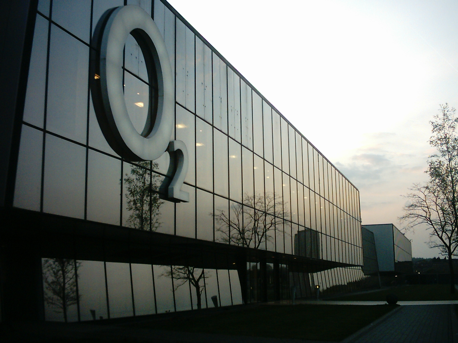 O2 offices off Dewsbury Road in Leeds, West Yorkshire, UK. Taken 20th April 2009.